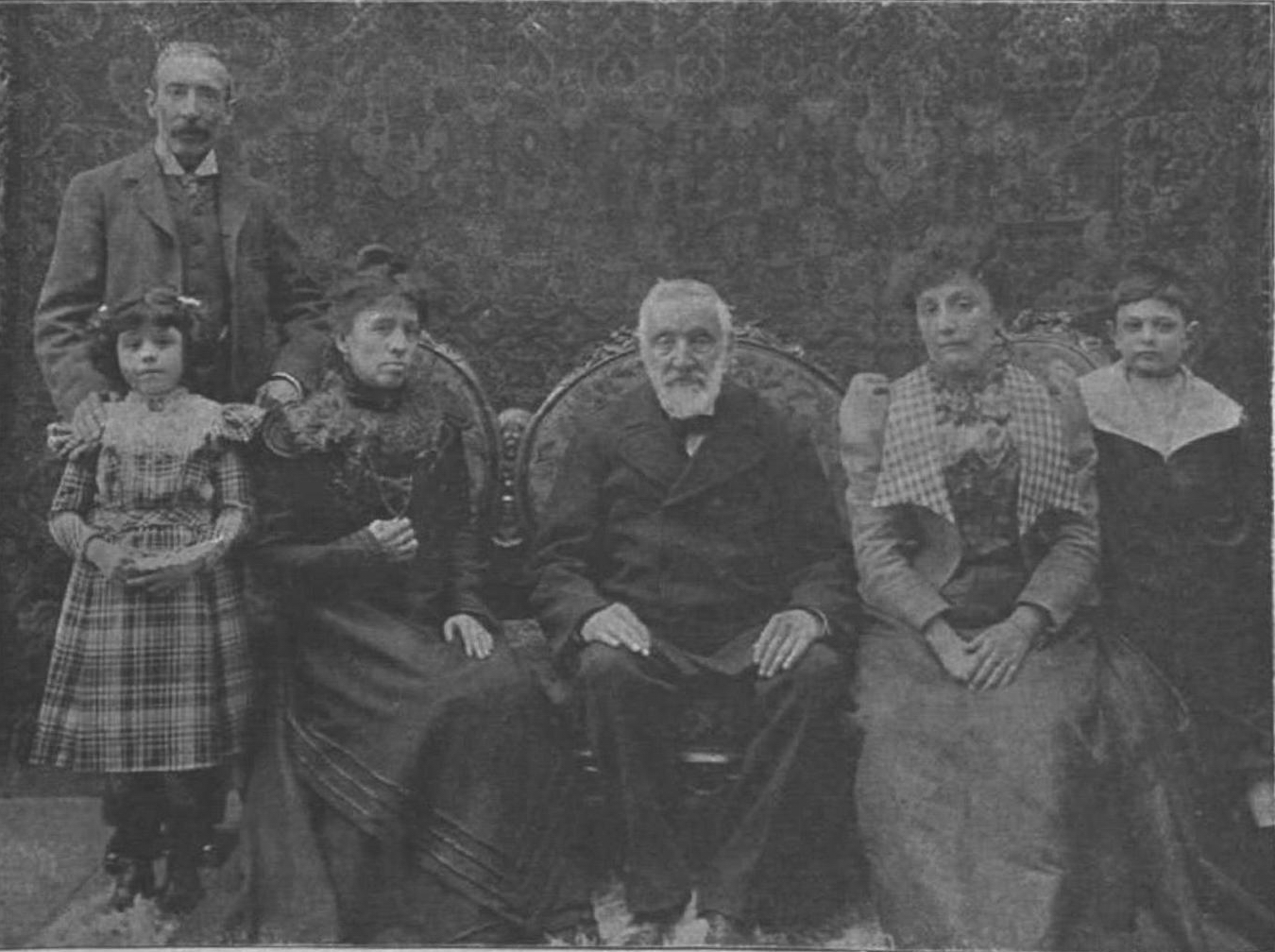 János Czetz and his family